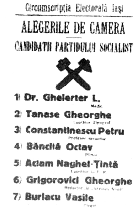 List of Socialist Party of Romania candidates in the 1920 elections for Chamber, Iaşi City precinct. Dr. Ghelerter L., medic (Leon Ghelerter, M. D.); Tănase Gheorghe, tipograf (Gheorghe Tănase, typesetter); Constantinescu Petru, profesor secundar (Petru Constantinescu, i. e. Petre Constantinescu-Iaşi, high school teacher); Băncilă Octav, pictor (Octav Băncilă, painter); Adam Naghel-Ţintă, lucrător C. F. R. (Adam Naghel-Ţintă, Romanian Railways employee); Grigorovici Gheorghe, redactor la "Vremea Nouă" (Gheorghe Grigorovici, editor at Vremea Nouă); Burlacu Vasile, plugar (Vasile Burlacu, plowman).